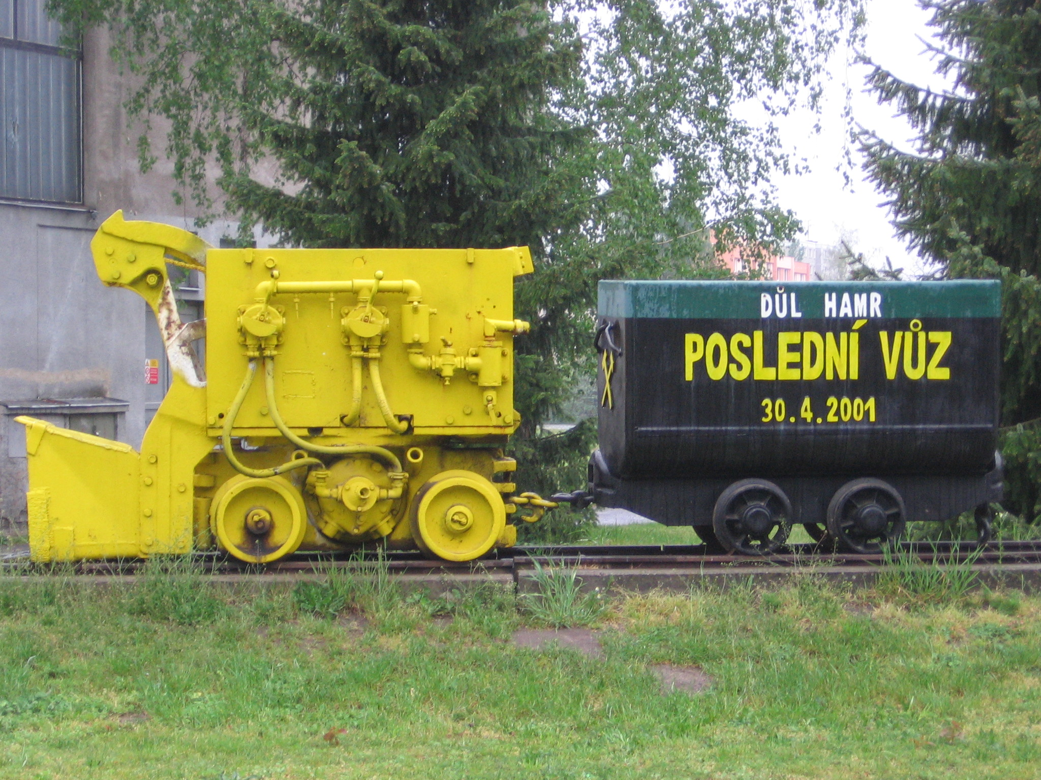 Soviet overhead loader PPN-1S with mining cart in Stráž pod Ralskem (a town in Liberec Region, the Czech Republic)